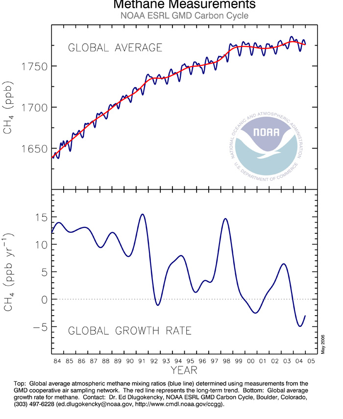 Atmospheric Methane measurements 1984-2005 Top: Global average methane mixing ratios from the GMD cooperative air sampling network. Bottom: Global average growth rate for methane.